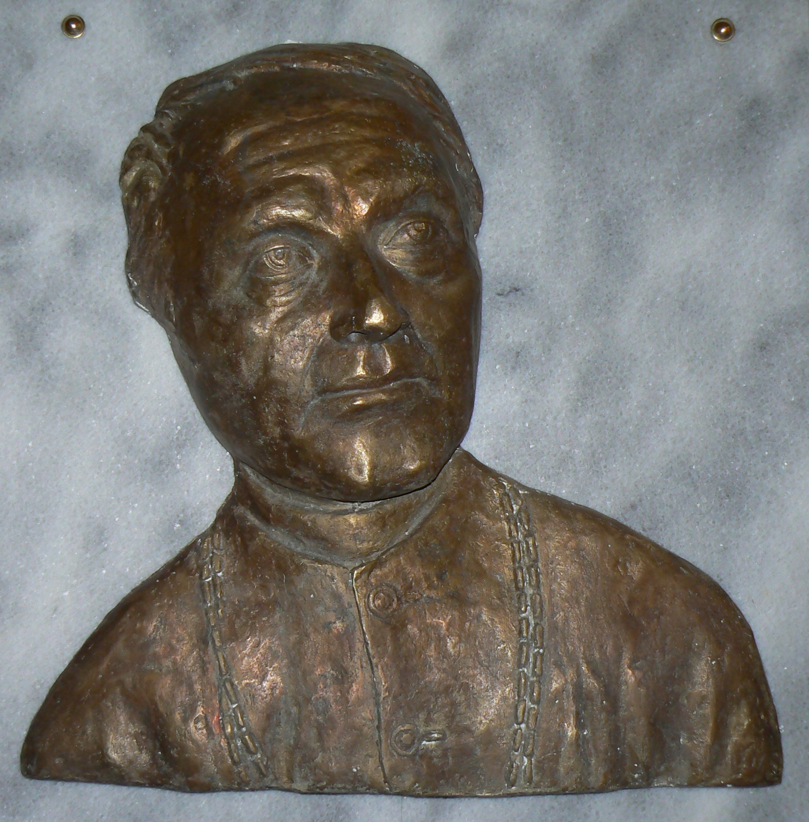 Bas-relief of Franjo Rački in the Central Library of Bulgarian Academy of Sciences, Sofia, Bulgaria